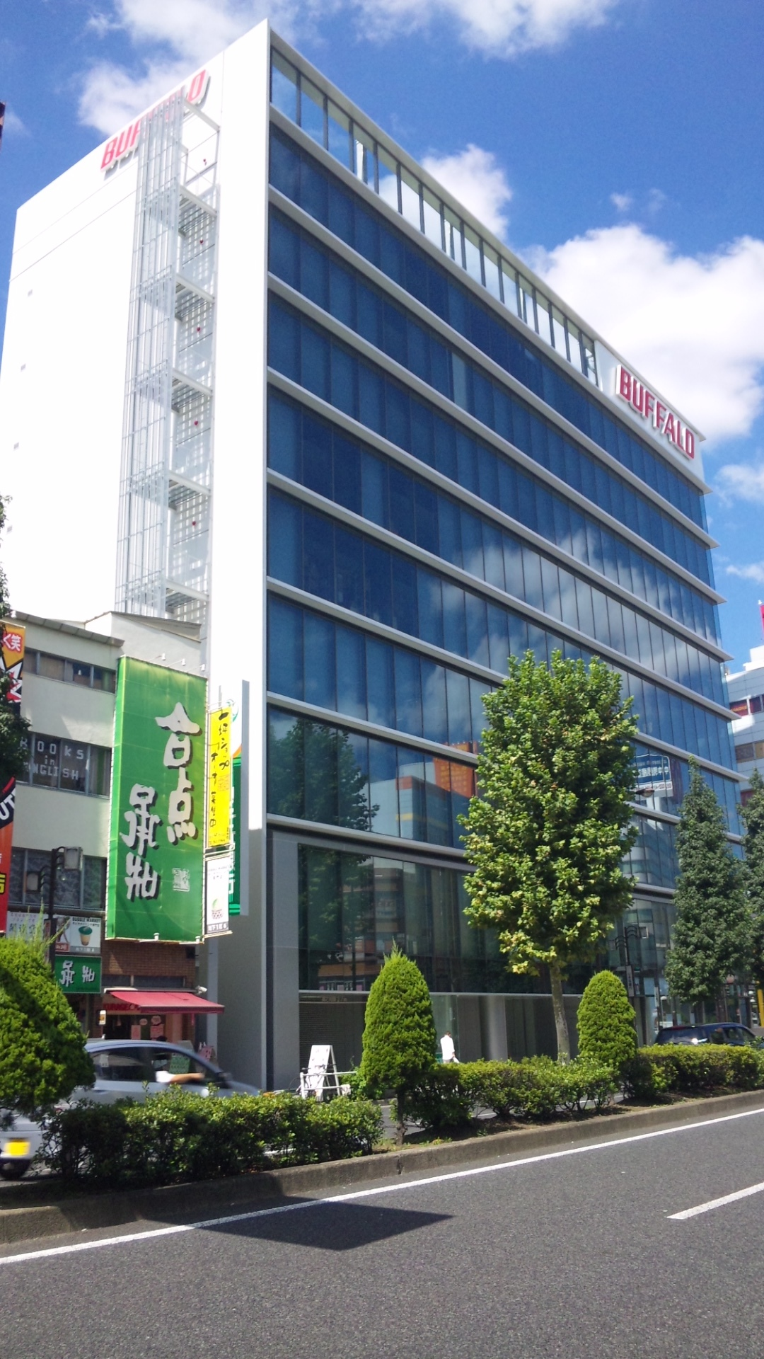 Akamondori building in Ōsu, Naka Ward, Nagoya, Aichi Prefecture. It's mainly including MELCO HOLDINGS INC.(BUFFALO INC.,BUFFALO KOKUYO SUPPLY INC.,CFD SALES INC.,and so on).